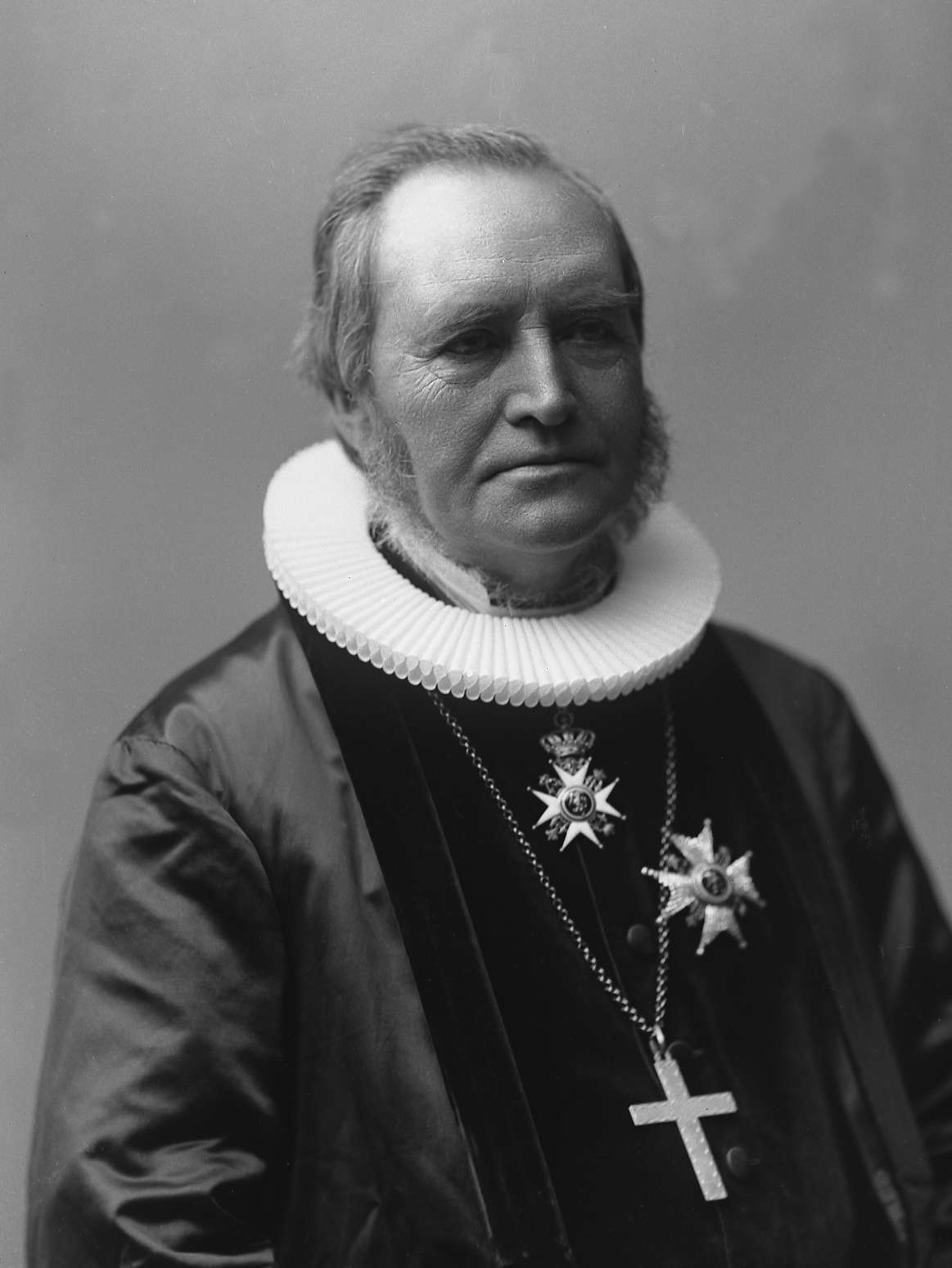 Johannes Nilsson Skaar (1828–1904), Norwegian bishop and hymnologist. Photograph by Gustav Borgen, in the collection of Norsk Folkemuseum.